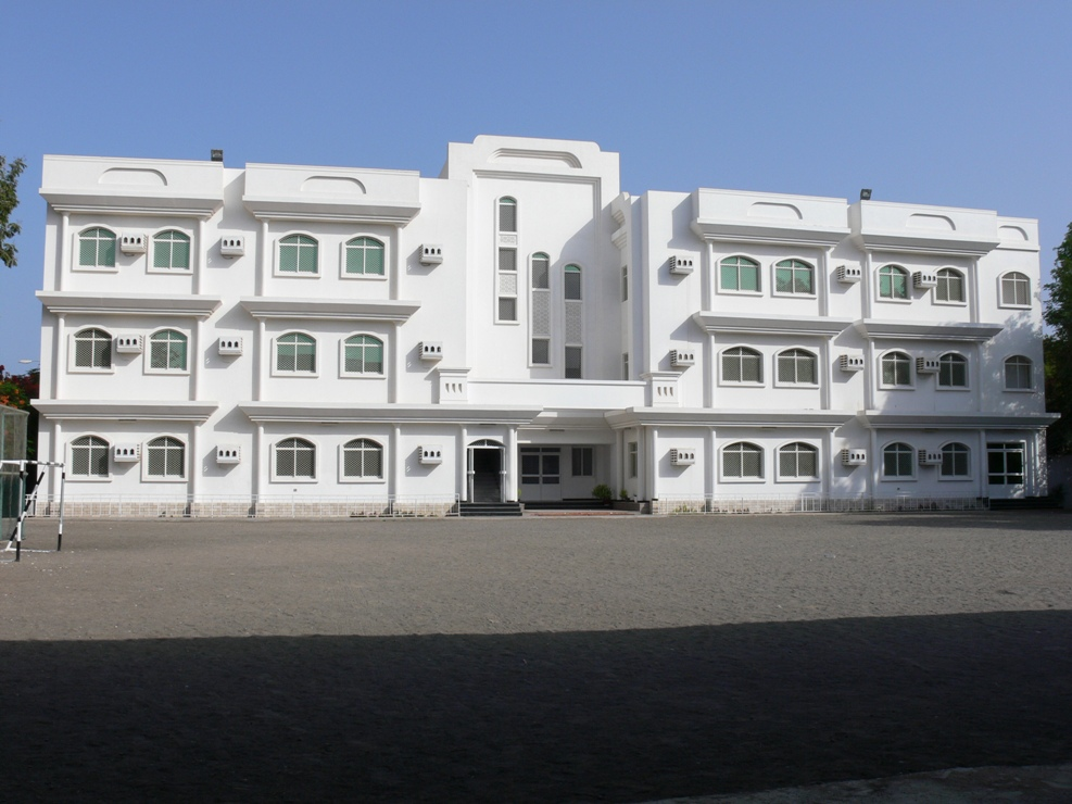 Indian School in Sohar (Oman). New block of the school